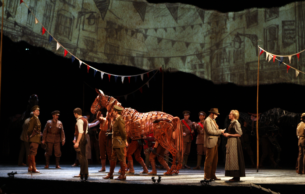 War Horse play enjoys Sydney, Australia media call at Lyric Theatre, The Star This morning War Horse (the play - not the movie), enjoyed its Sydney media / production call.